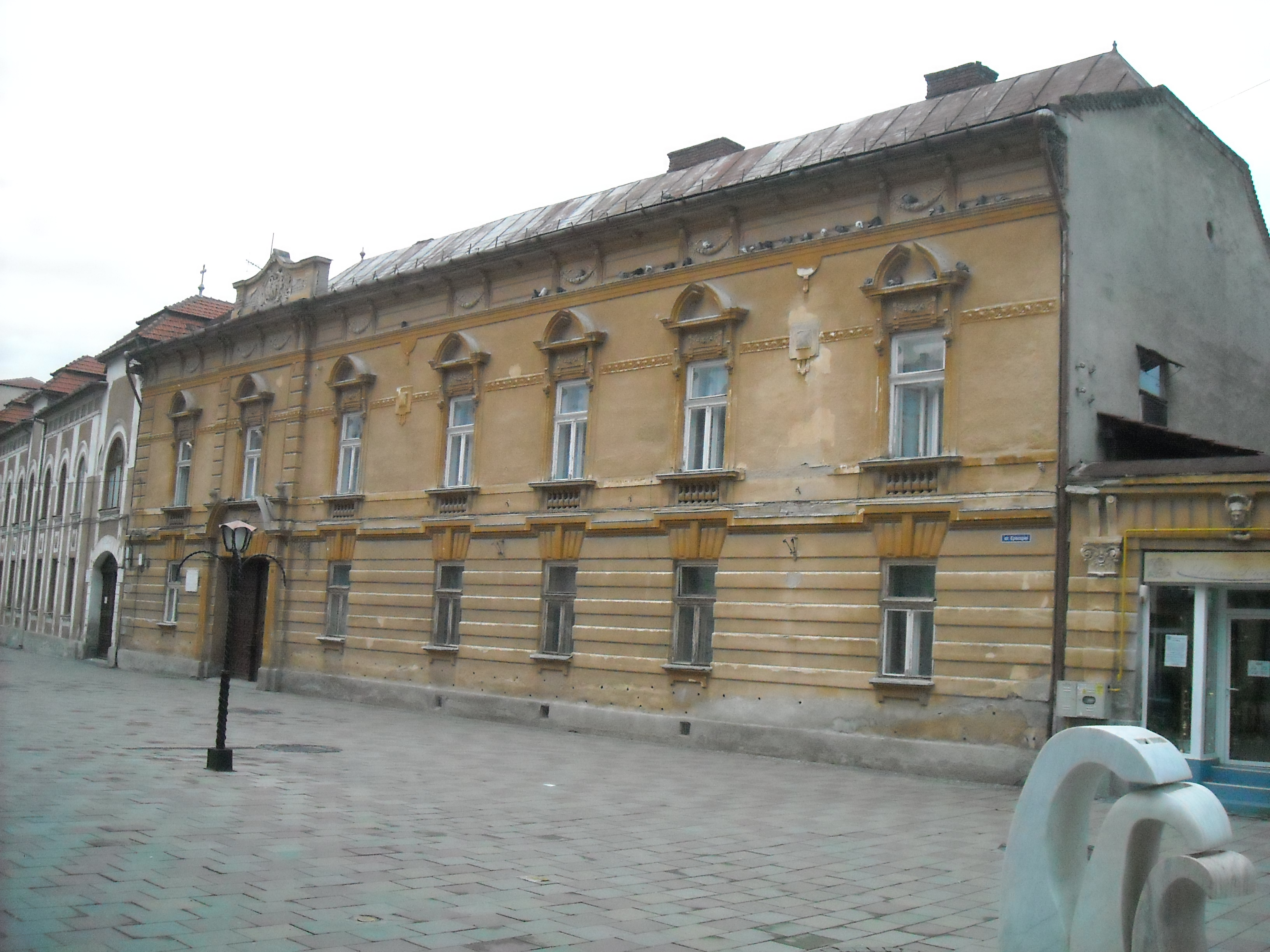 the former Orthodox episcopal palace in Caransebeș